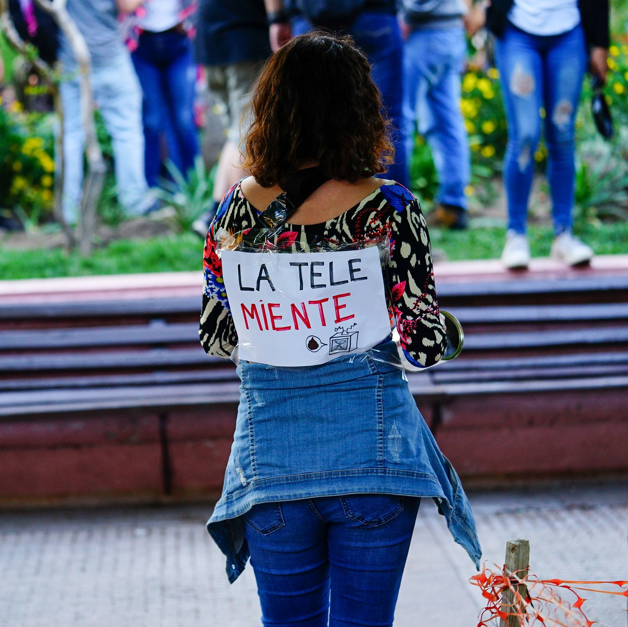 Sunday, october 20th - More than 20 thousand people gathered at the Plaza de Los Heroes (Heroes Square) at the very center of the city of Rancagua to peacefully demonstrate their will for a deep change of the state politics. This was the first masive march in more than 30 years.